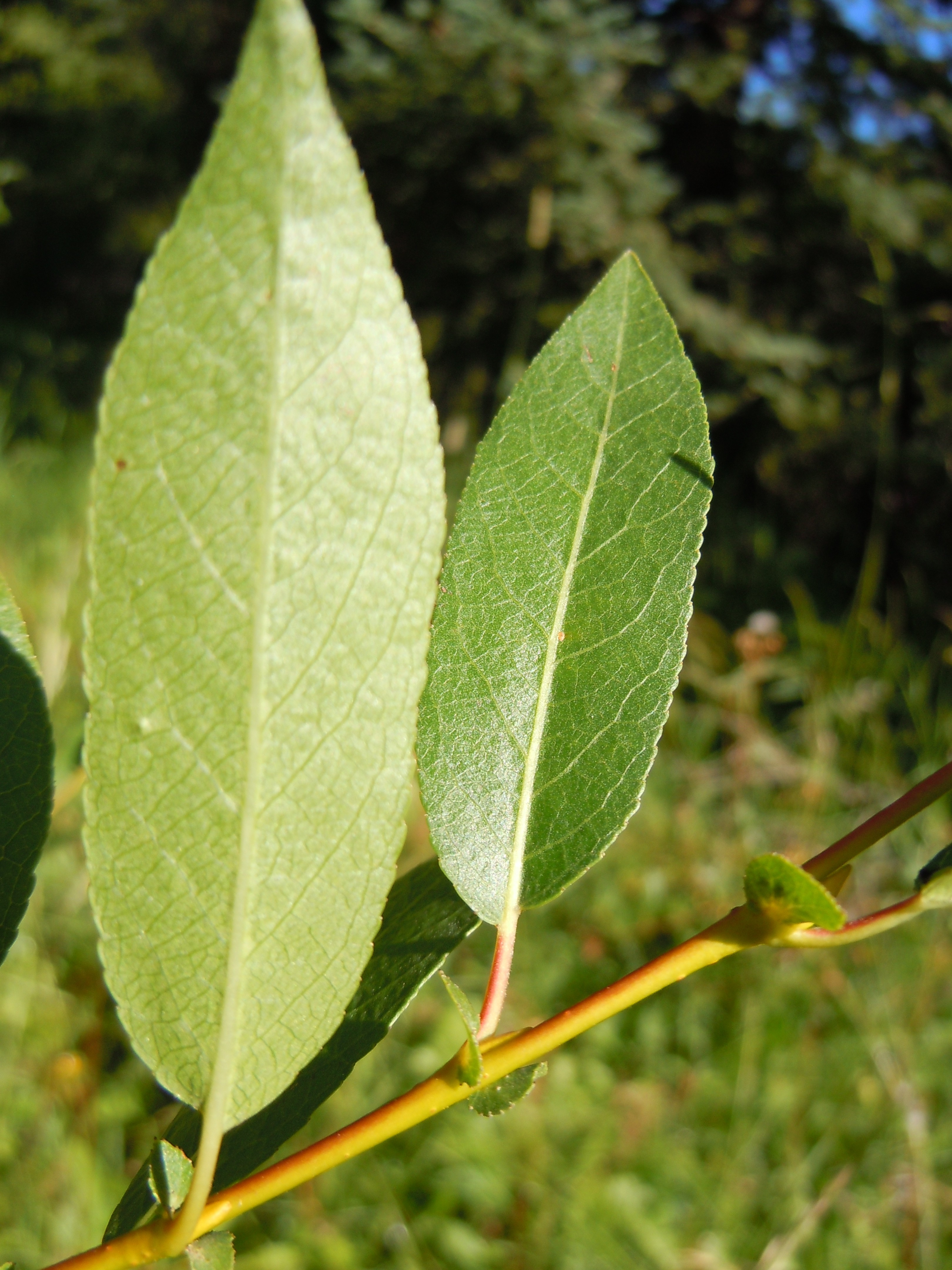 Salix boothii in Gallatin Co., MT, USA